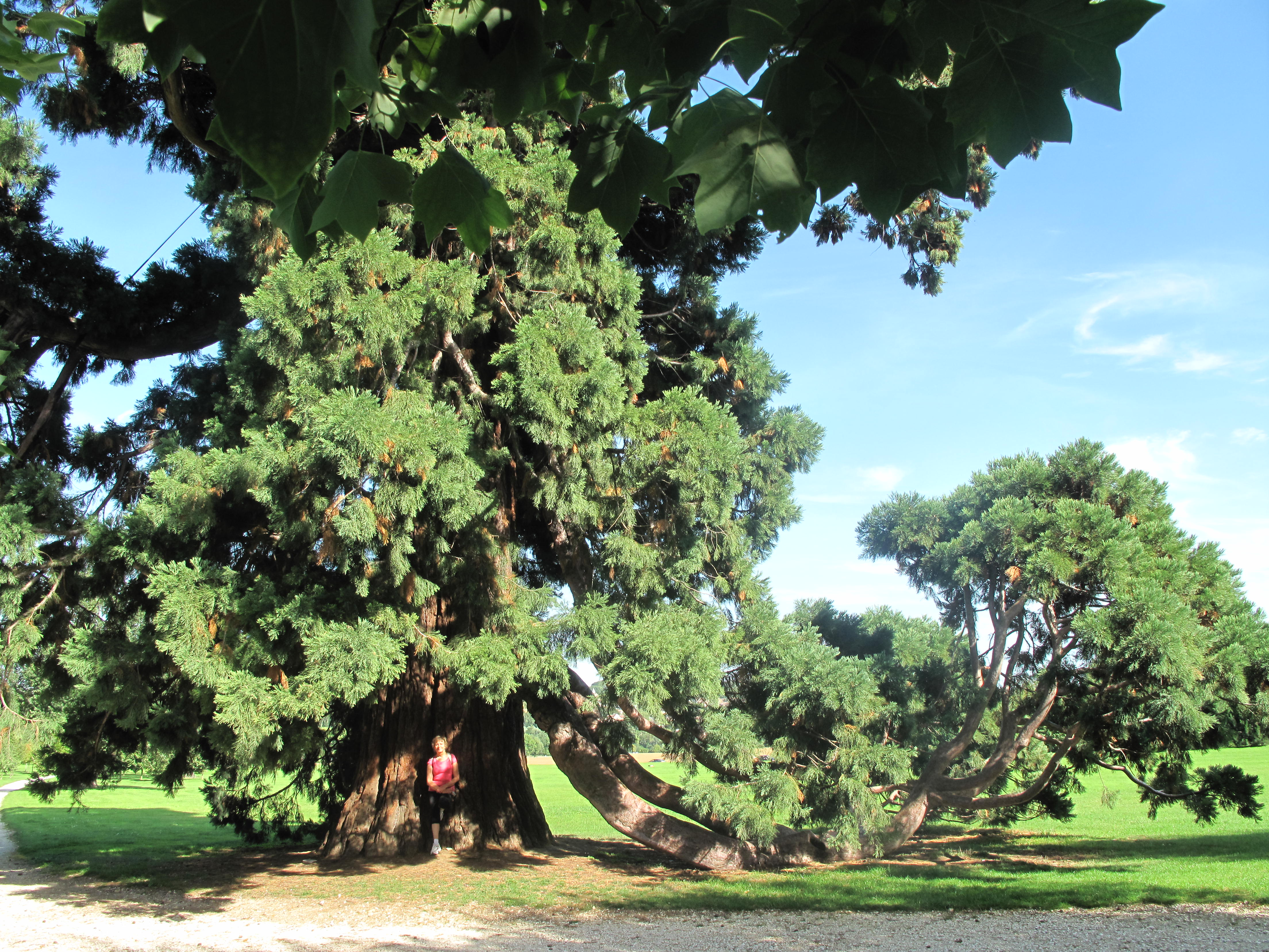 Sequoiadendron giganteum layering in the park of the castle of Rentilly (Seine-et-Marne), France.